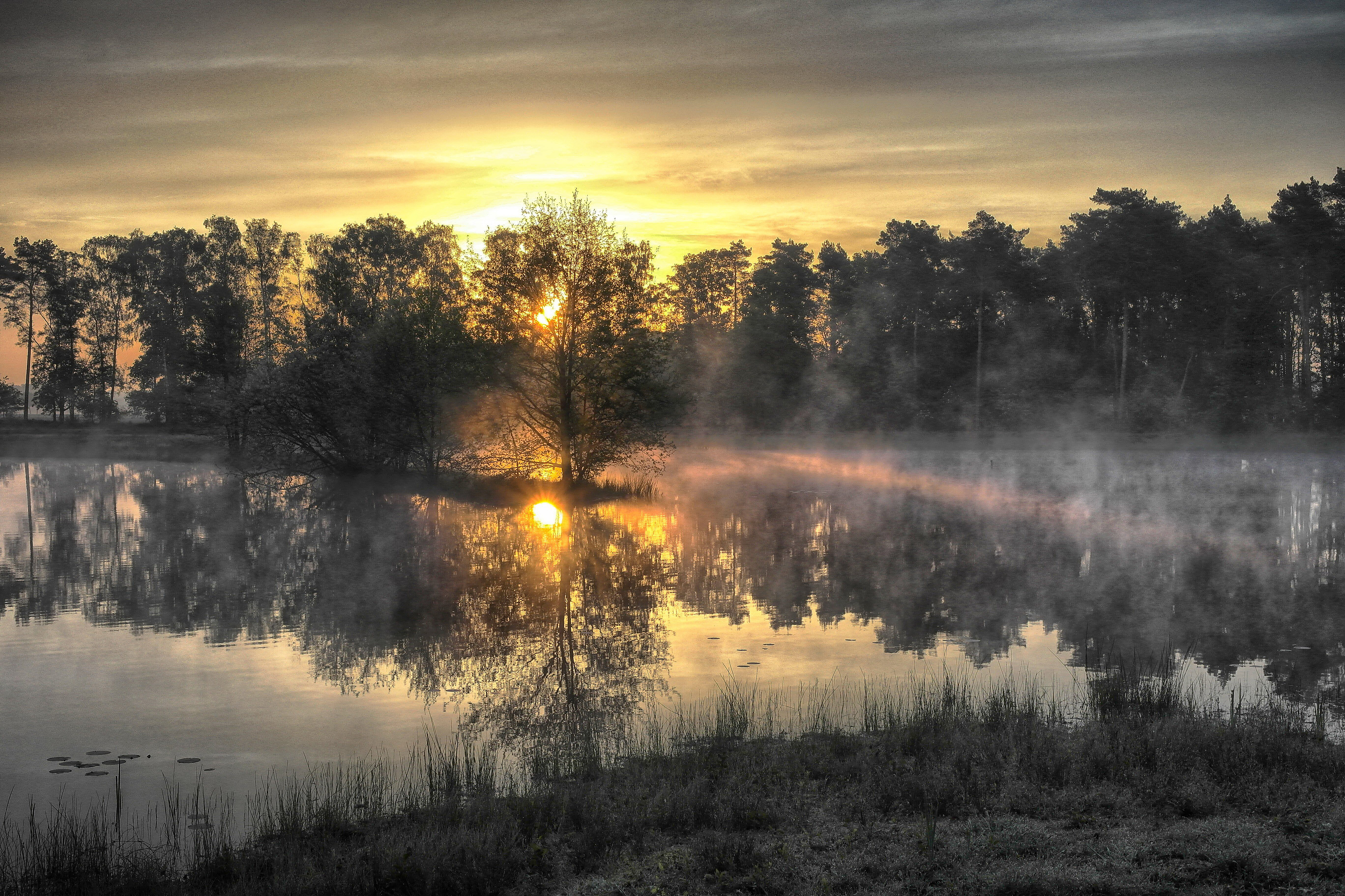 the first sunbeam drift on the gnats Pohl in Rahden - Varl ; This was in 1936 designated as a nature reserve and is one of the oldest nature reserves in Westphalia .